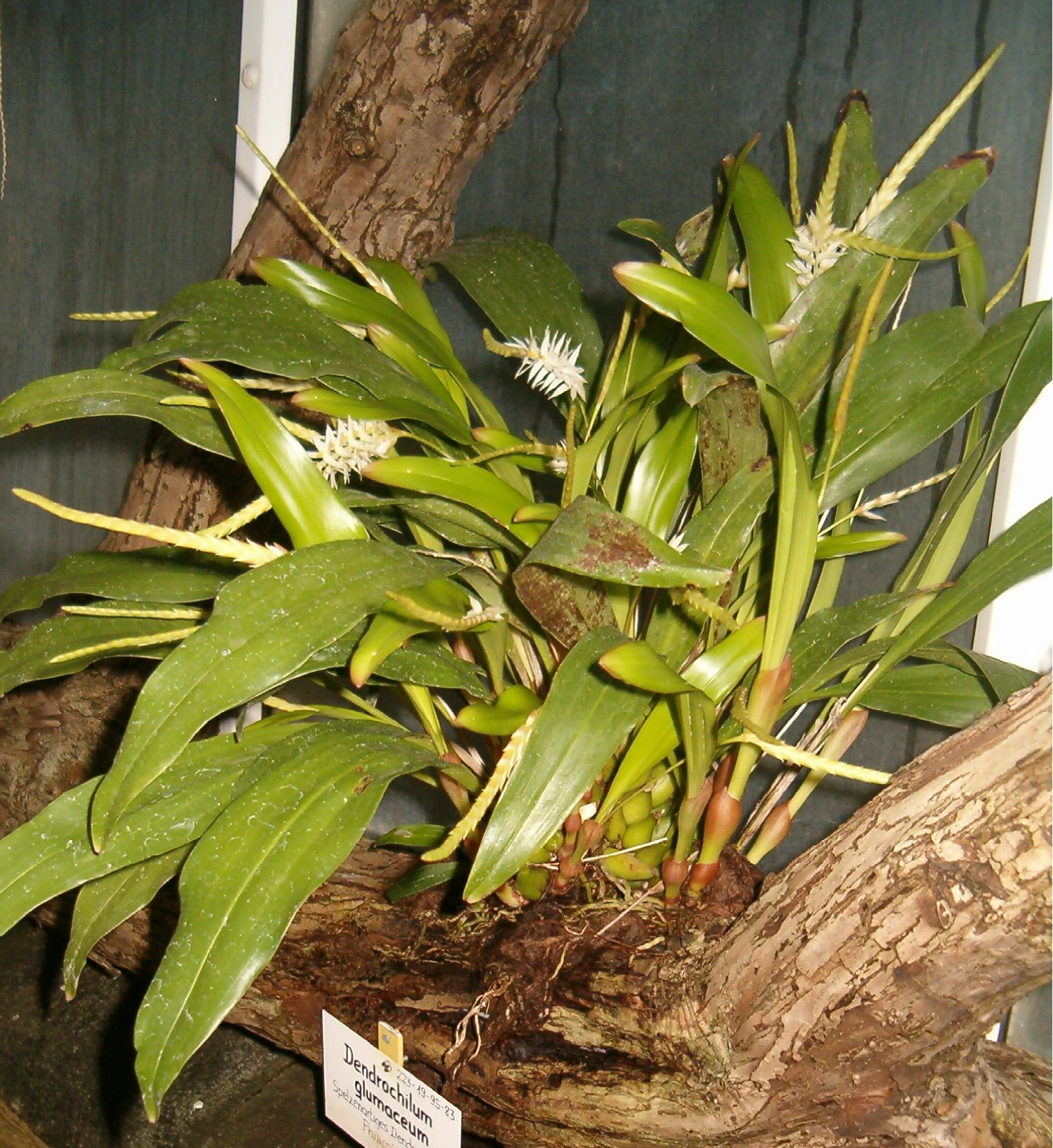 Location: Botanical Gardens Berlin Dahlem